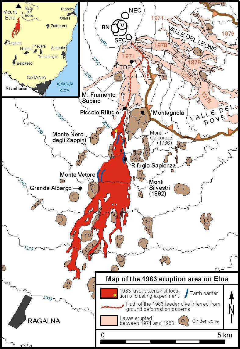 Map of the 1983 eruption area on Etna